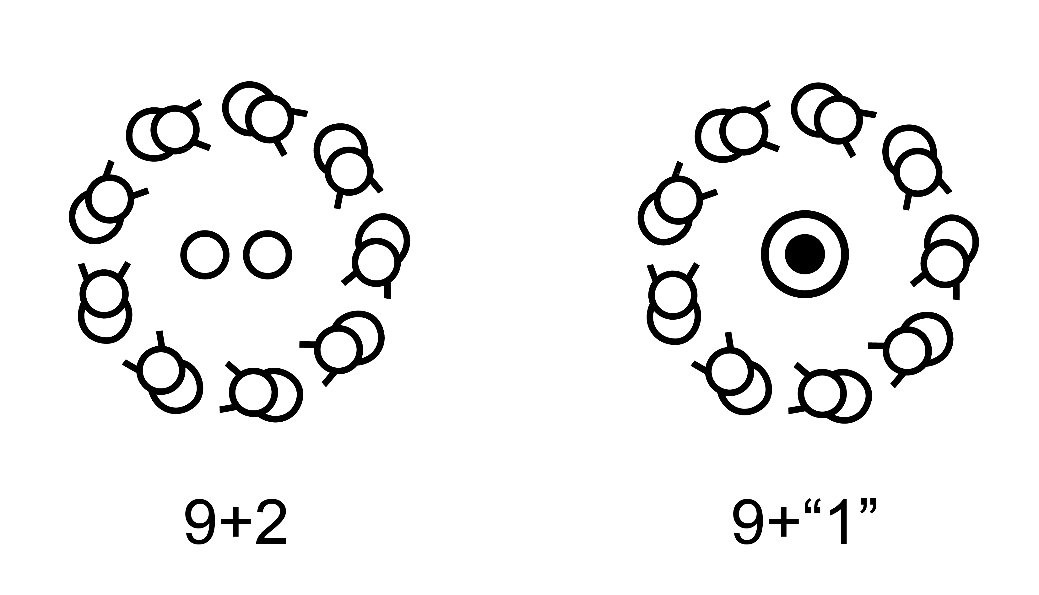 Transverse sections of axonemes, type 9+2 (almost universal structure) and 9+"1" (found only in spermatozoa of Platyhelminthes) as observed in transmission electron microscopy. Personal work, from various sources.